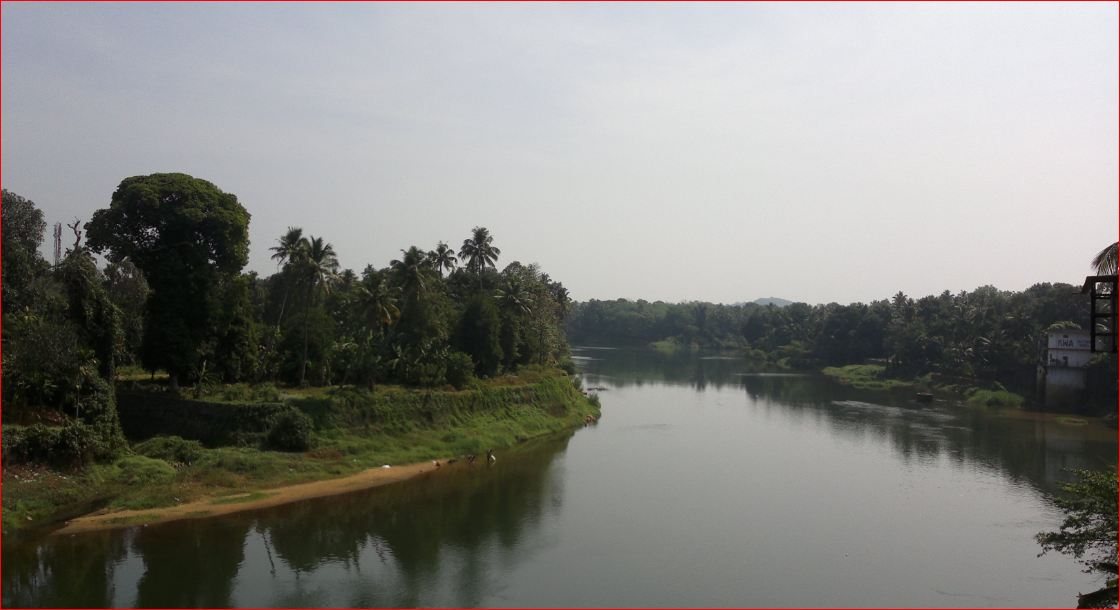 Landscape photograph of Muvattupuzha River